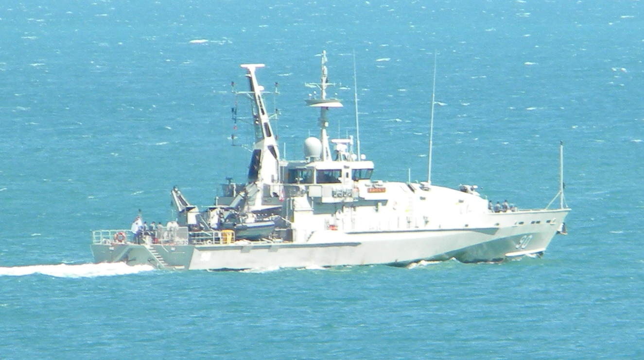 HMAS Broome (ACPB 90) in Darwin Harbour